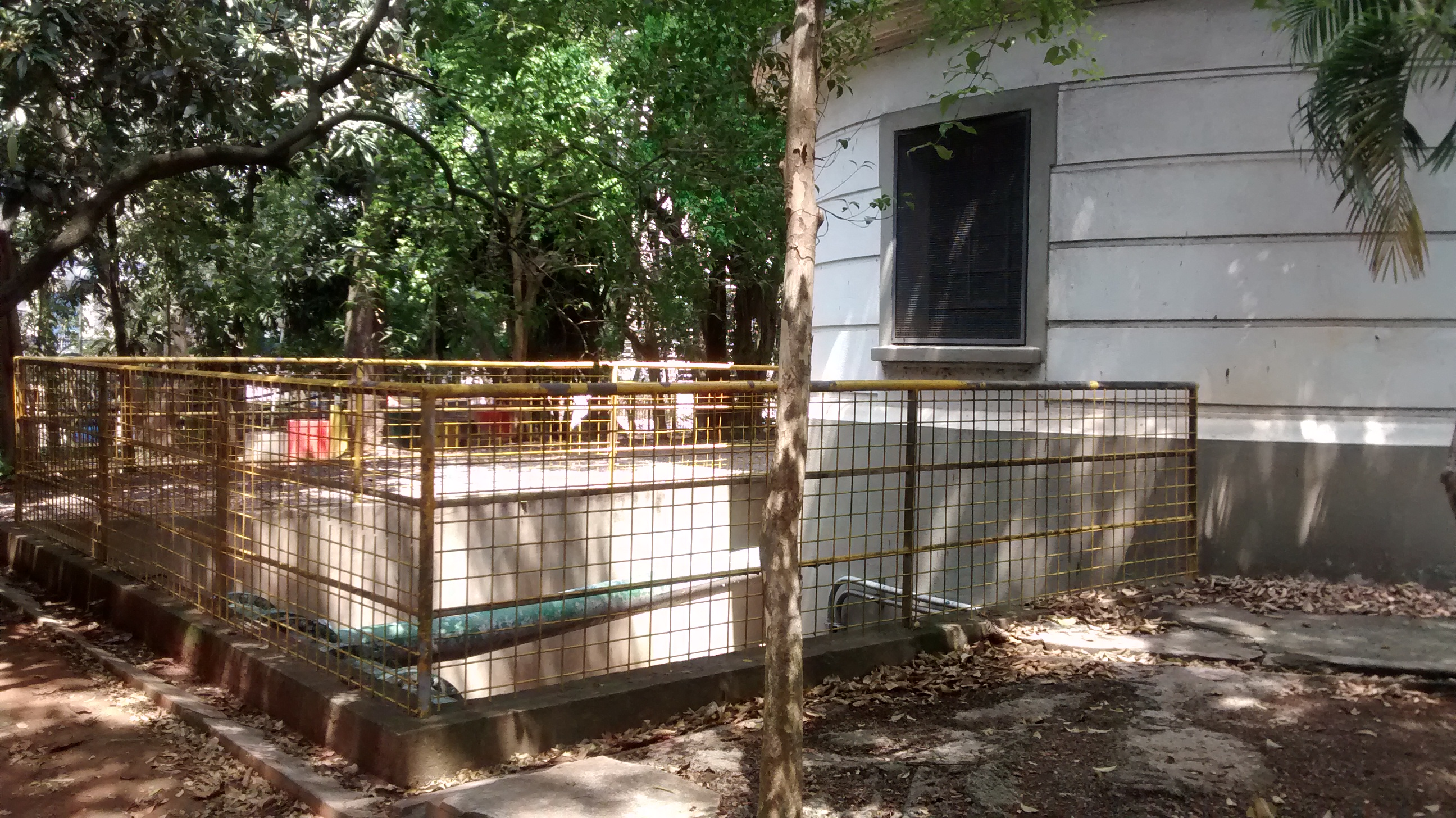 Imagem das instalações do Reservatório do Sumaré, em São Paulo (SP), Brasil.